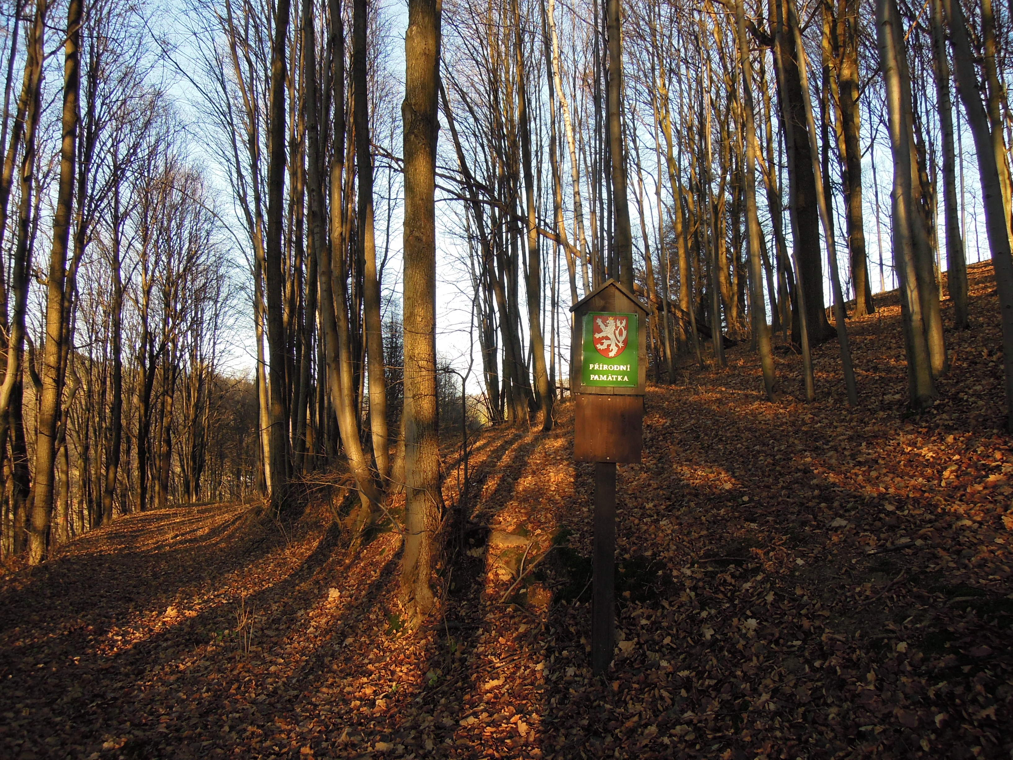 U Vaňků natural monument, Bystřička, Vsetín District, Zlín Region, Czech Republic